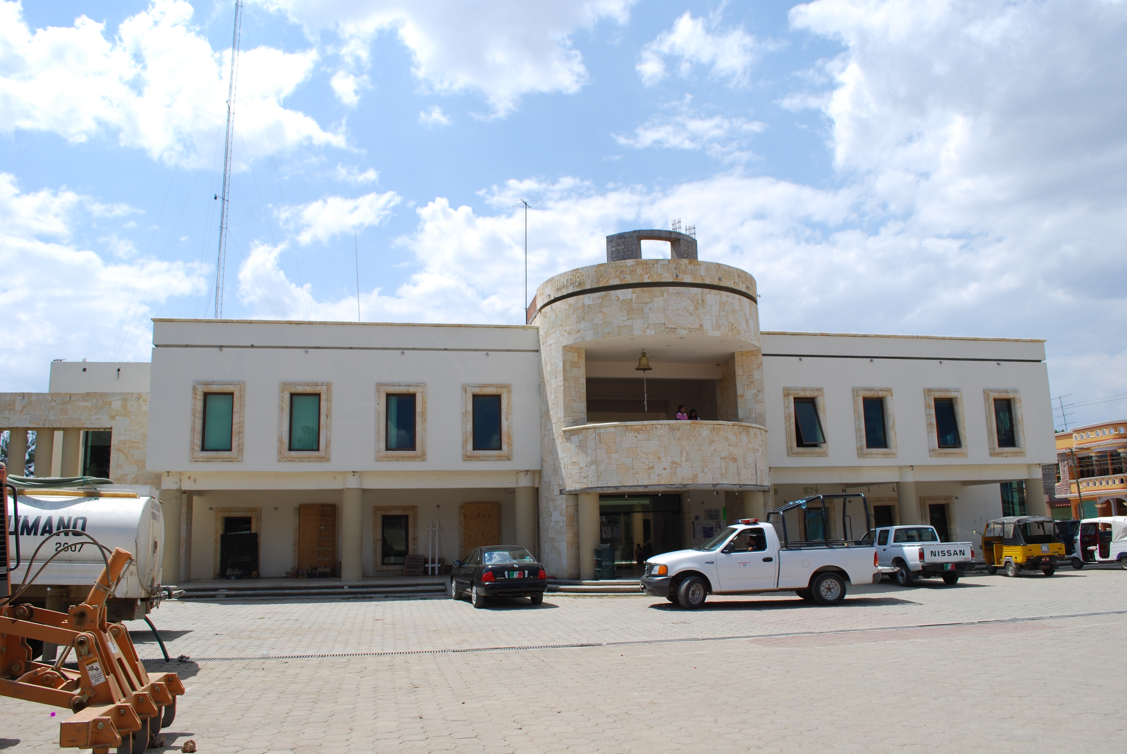 Municipal palace of San Antonino Castillo Velasco, Oaxaca, Mexico